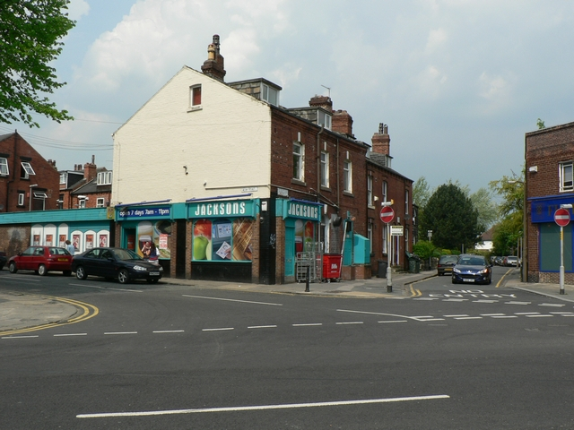 Ash Road and Ash Terrace, Headingley. Looking across North Lane toward Ash Road on the left and Ash Terrace on the right. Jackson's Stores at no 2 Ash Road.